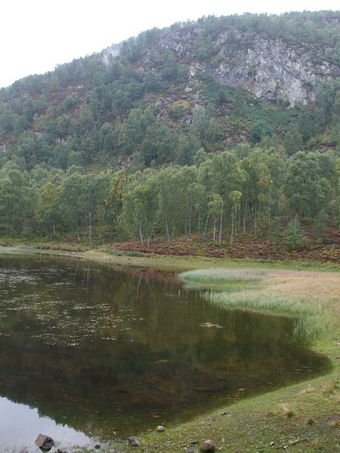 Craigellachie and unnamed lochan This crag and loch are west of Aviemore and a short nature trail skirts the base of the crags. 'Craigellachie' was used as a war-cry by clan Grant.